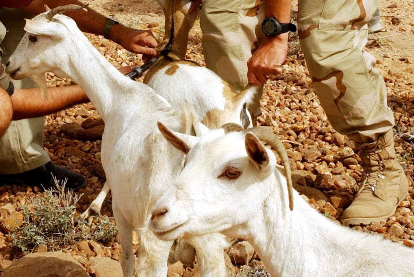 Two Somali goats in Ali Sabieh, Djibouti (14 June 2003).